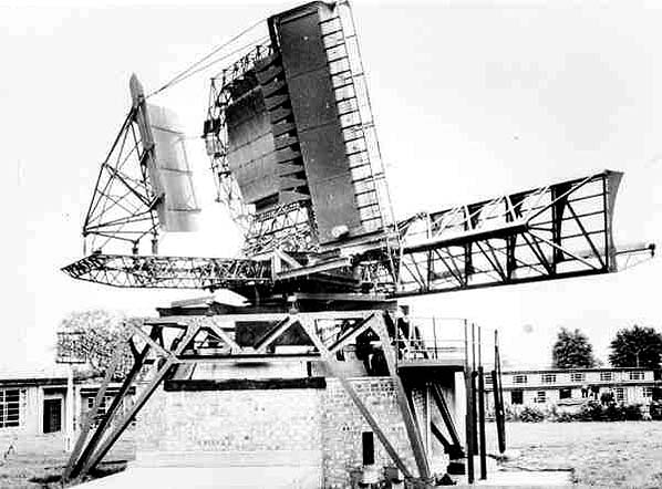 Orange Yeoman, later known as AMES Type 82, was an early "3d" radar developed by the RRDE at Malvern South Site. It was originally developed as a medium-range system to provide information for the Yellow River radars directing anti-aircraft guns. This role later passed to the Red Shoes and Red Duster missiles, where Orange Yeoman would guide their illuminator radars for the initial "putting on". In 1963 the defensive role was passed to the RAF, where it gained the Type 82 name. It was used as the putting on system for the Bloodhound missile for a short period, before those missiles were moved to Europe in 1964. The now-unneeded radars found a second life in air traffic control, where they remained in operation at least into the 1980s and possibly 1990s. The antenna system is complex, consisting of the transmitter on the lower right, a lens system above it roughly centered, a reflector on the left, and eleven feed horns in a vertical stack on the near side of the lens. Operational units had another antenna on top, for receiving IFF signals.